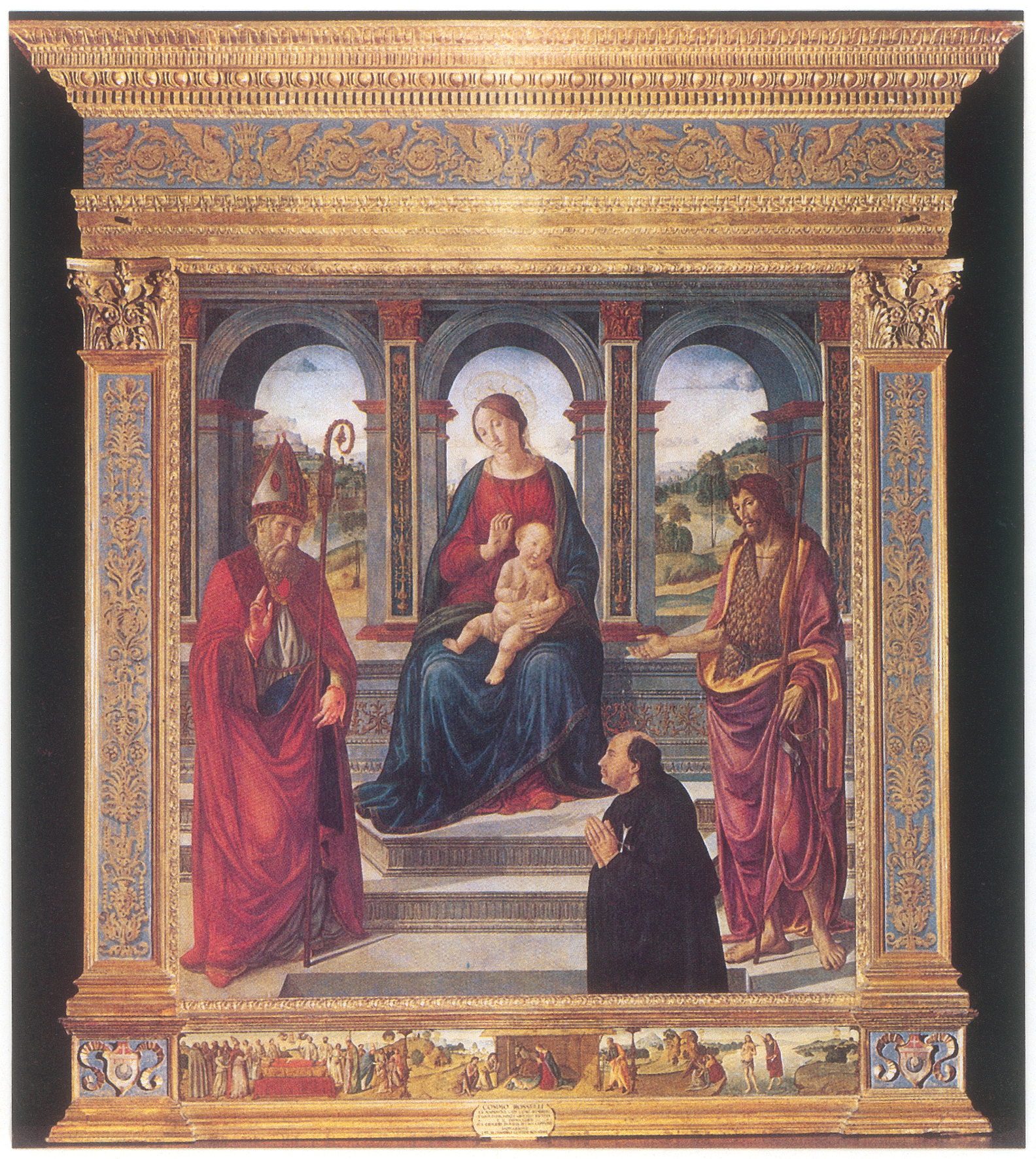 Pala of Cosimo Rosselli (1480) located in the Commenda di Sant'Eufrosino Church in Volpaia, Radda in Chianti, Siena